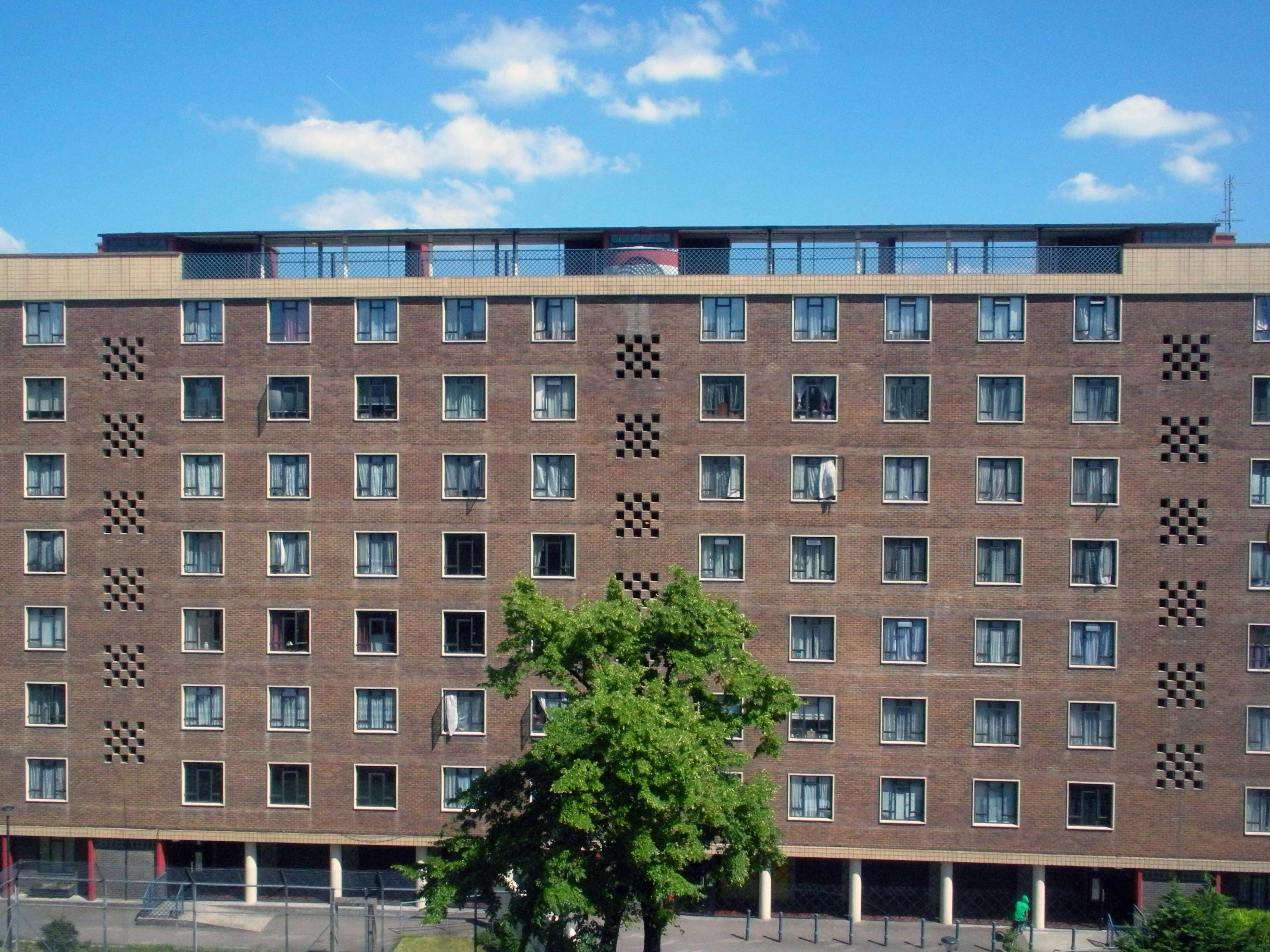 view acroos plaza include 'wind roof' and tree preserved in Lubetkin's design